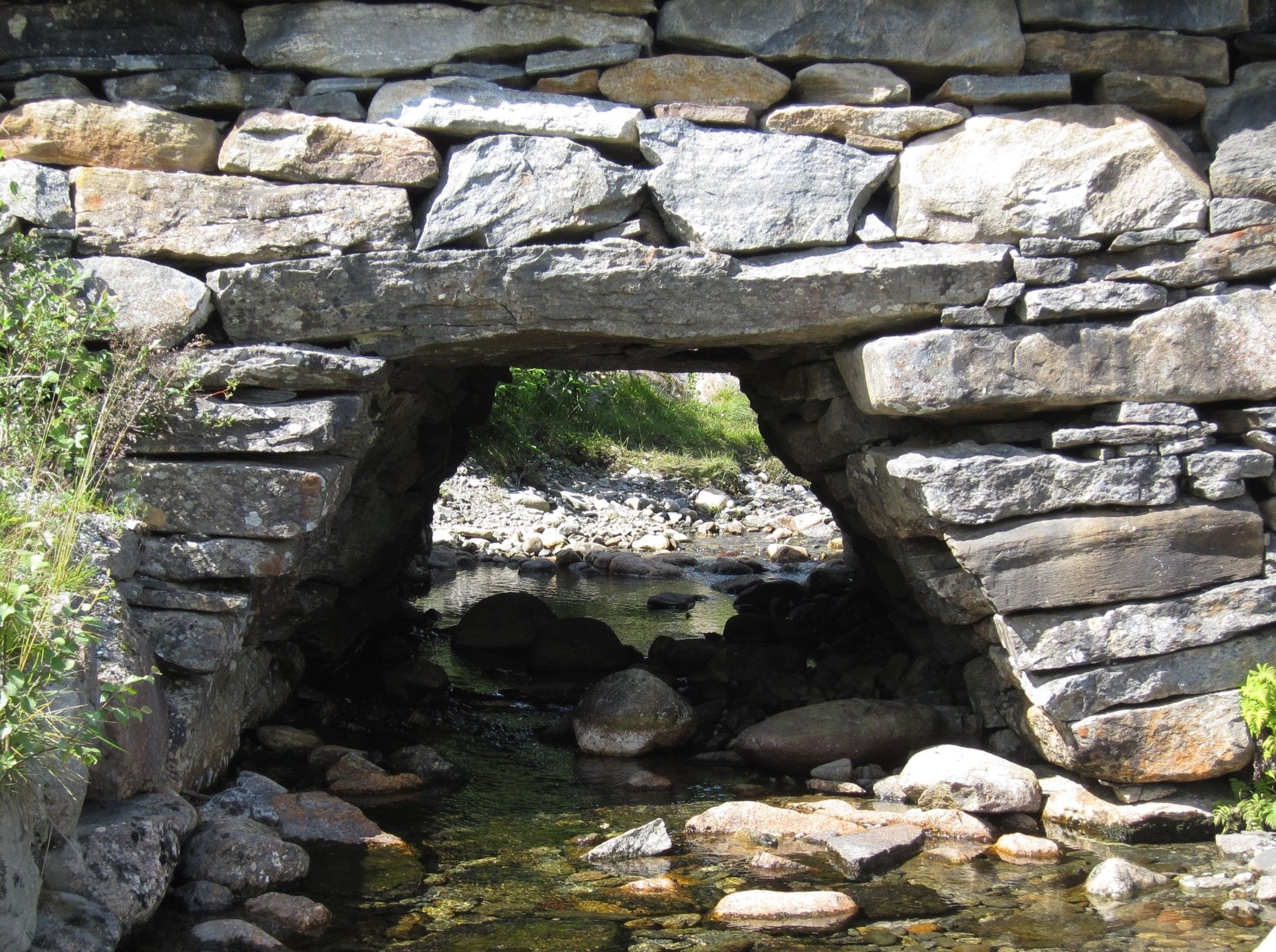 Horndøla old bridge, road 60 in Sogn og Fjordane, Norway, detail